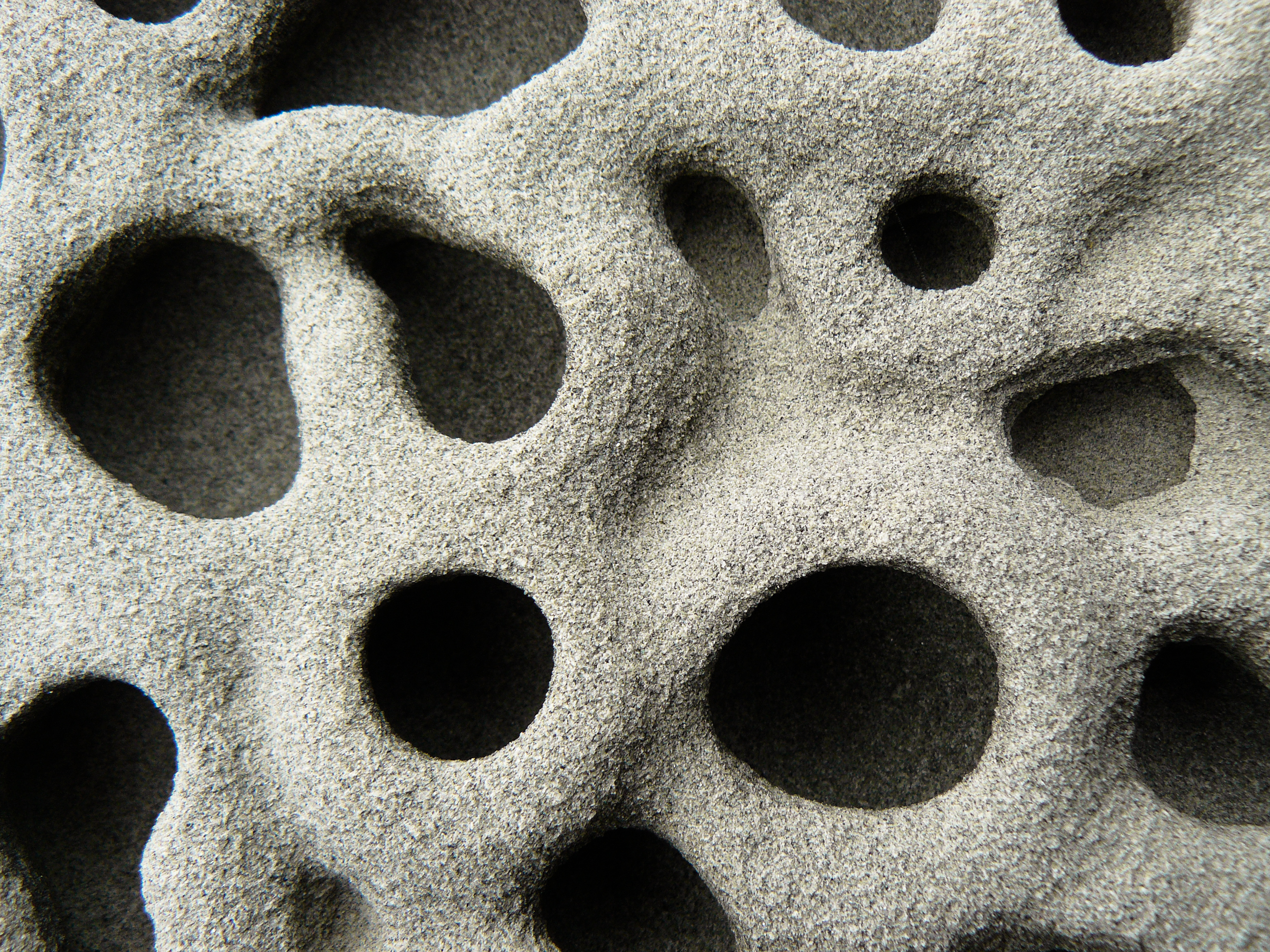 Tafoni – weathered sandstone at Pebble Beach, San Mateo Coast, San Mateo County, California, USA